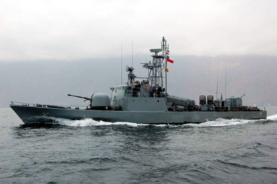 Chilean patrol boat Teniente Orella